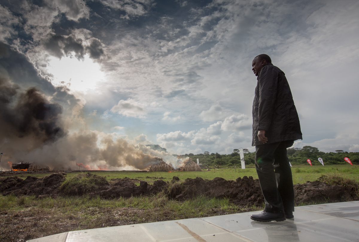 President Uhuru Kenyatta watches 105 tons of ivory burn in Nairobi National Park on 30th April 2016.